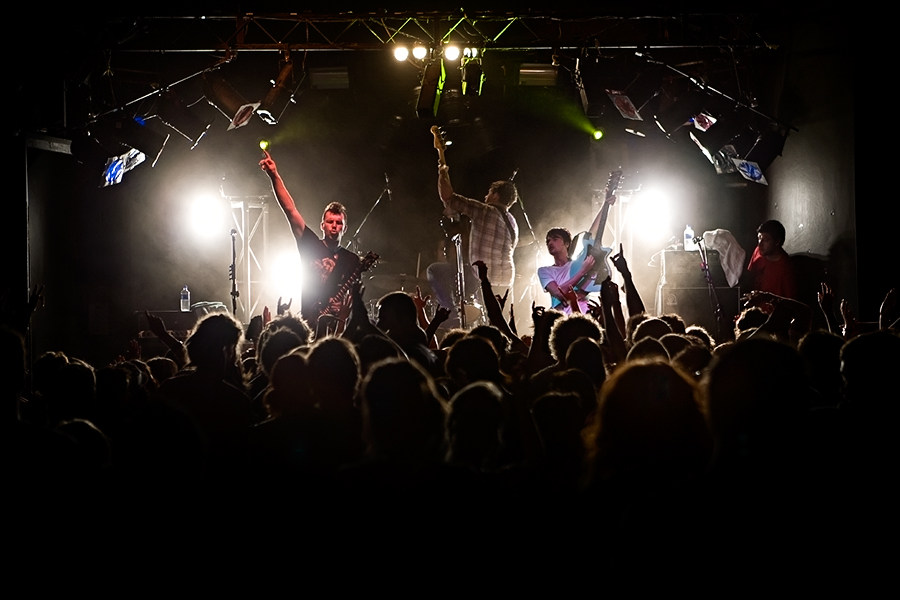 Australian band Kisschasy performing live at the Great Northern Hotel Byron Bay 14th November 2007